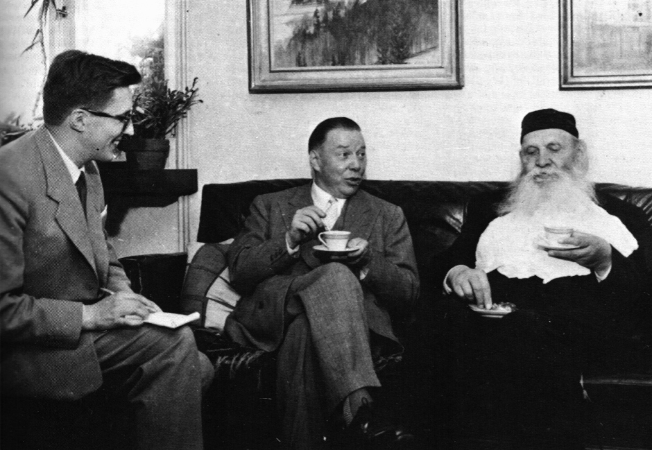 Finnish writers at the 70th birthday of Frans Emil Sillanpää in Helsinki in 1958, from left: Lassi Nummi, Mika Waltari, F. E. Sillanpää.